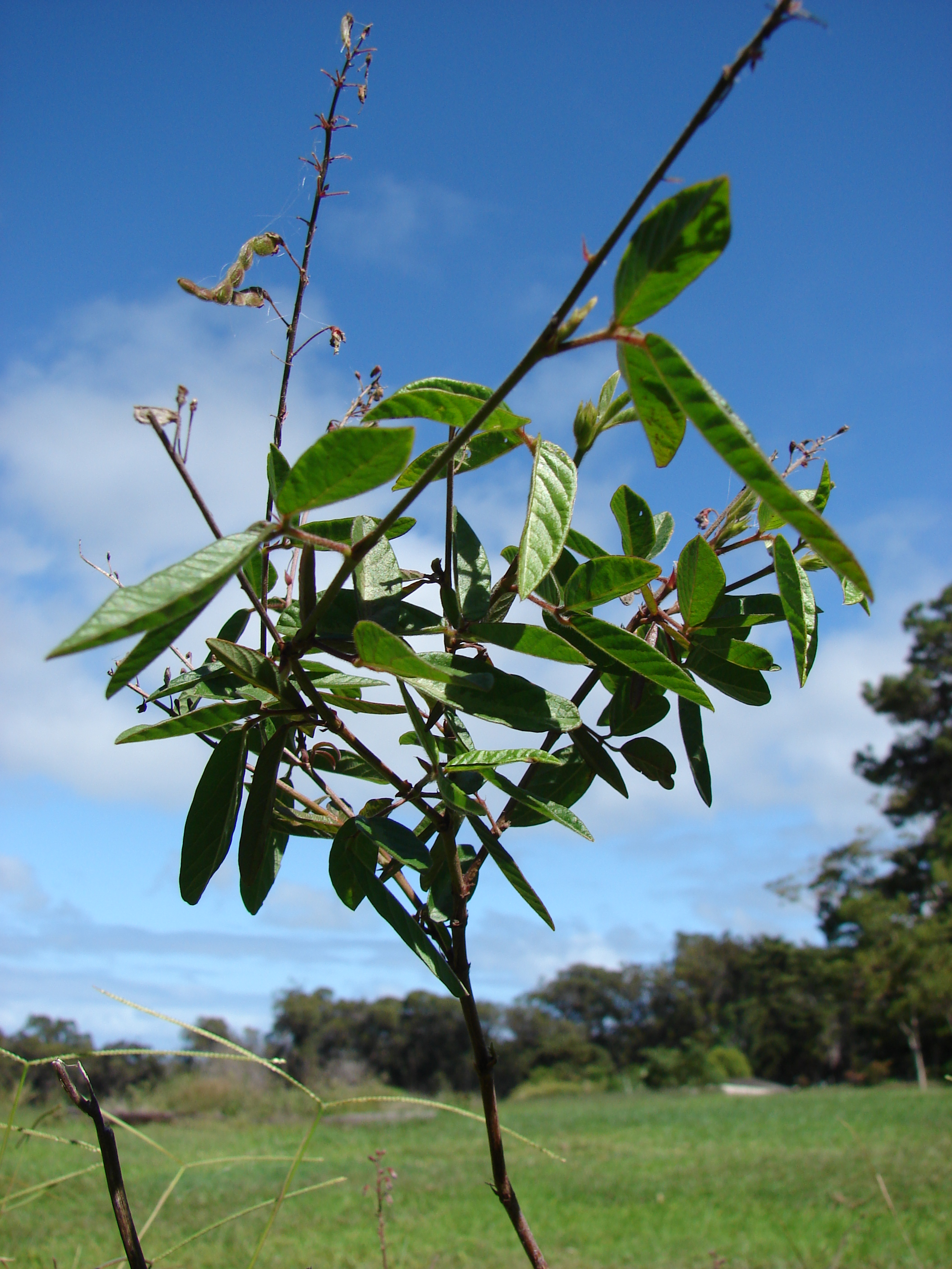 Desmodium incanum (habit). Location: Maui, MISC LZ Piiholo